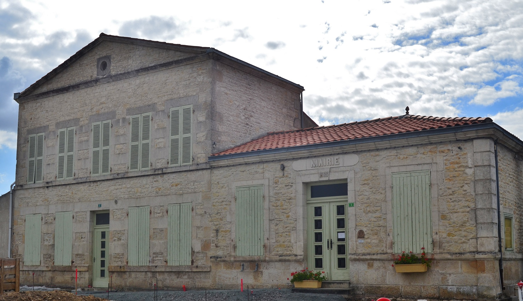 La Mairie